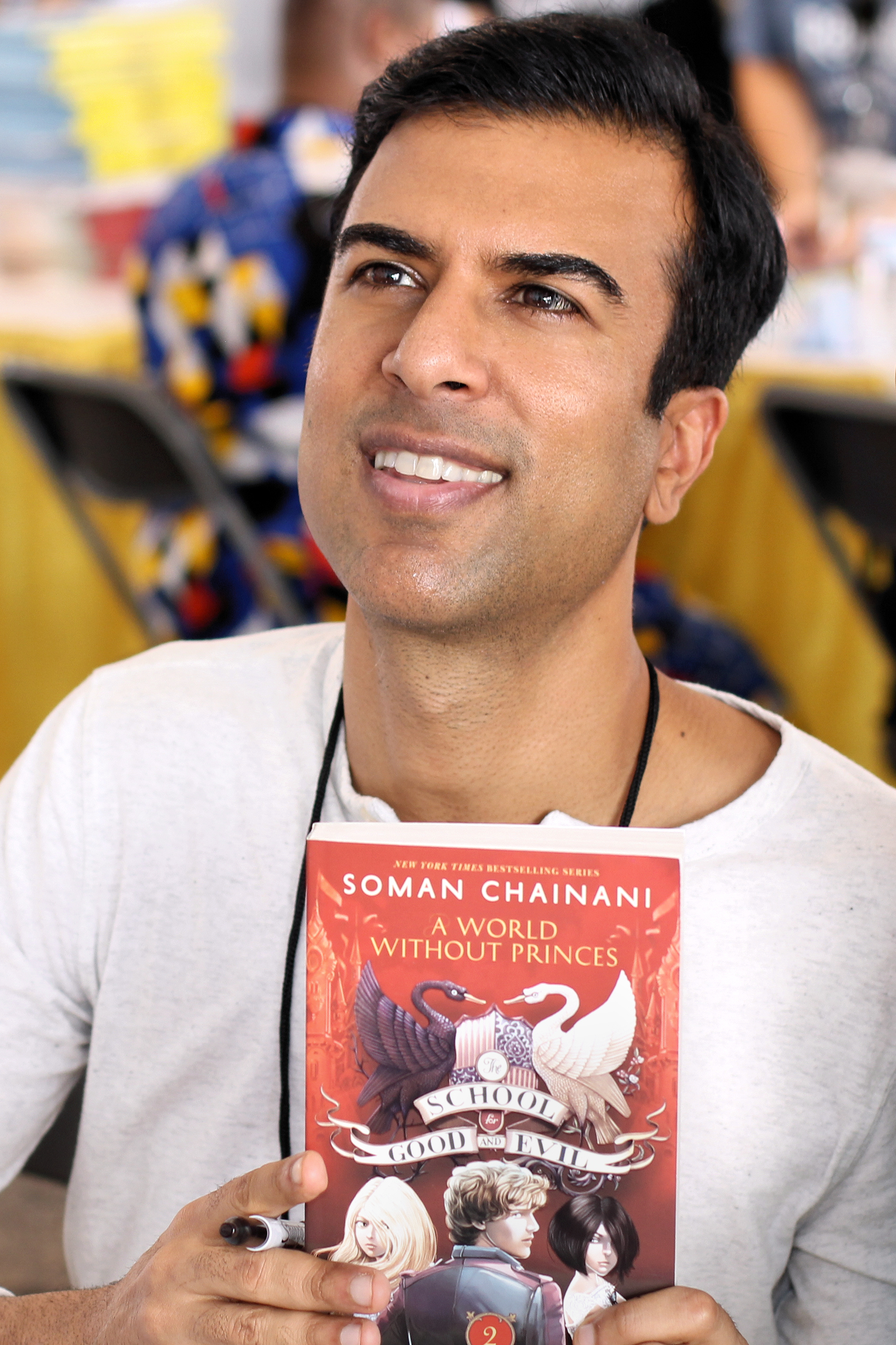 Author Soman Chainani at the 2018 Texas Book Festival in Austin, Texas, United States.